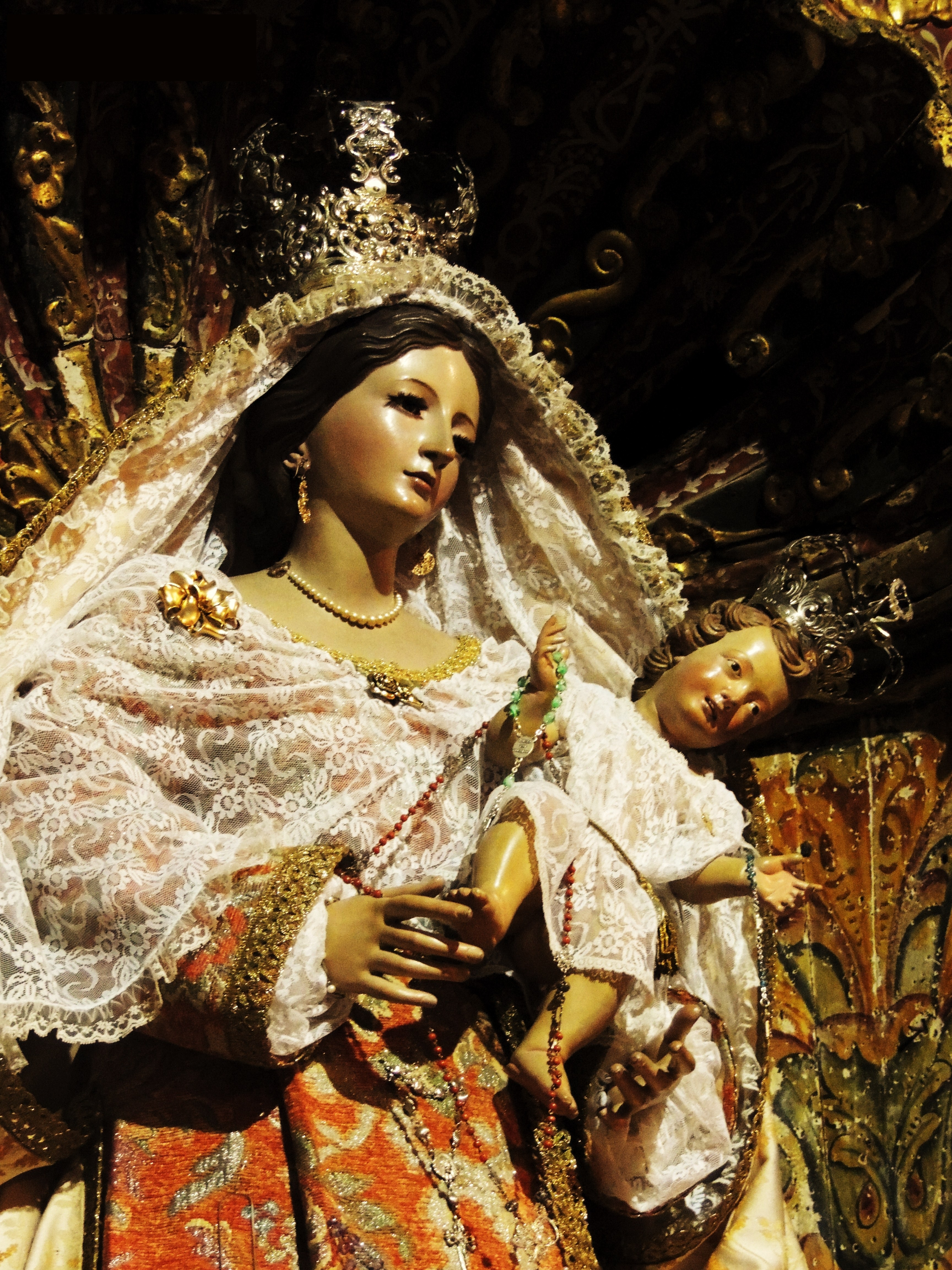 Nuestra Señora de los Remedios. 1817. Fernando Estévez de Salas. Parroquia Matriz del Apóstol Santiago. Los Realejos, Tenerife.